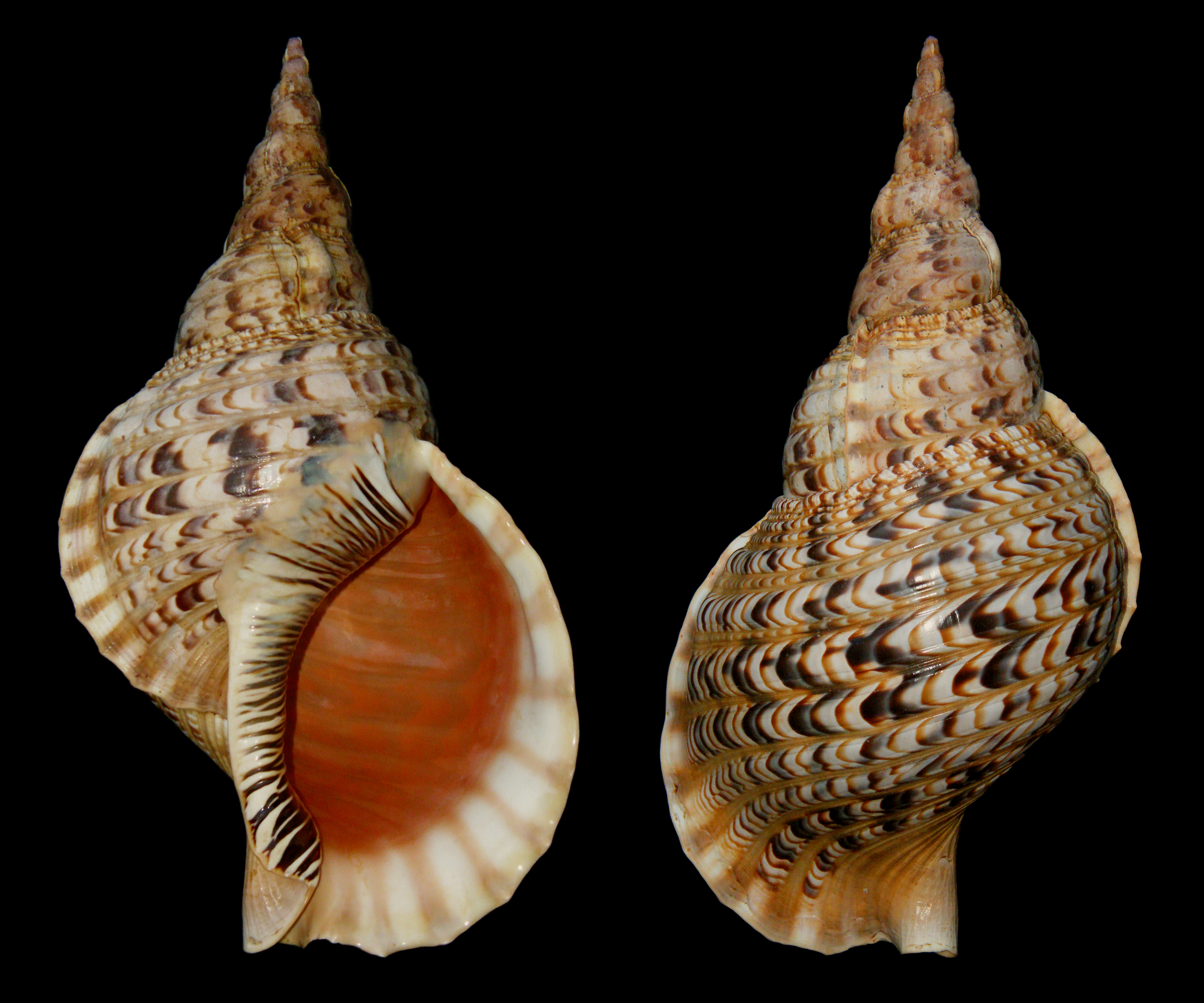 Charonia tritonis Linnaeus, 1758. Previously on permanent display in a small museum called "gloriamaris". Acquired ca. 1985.